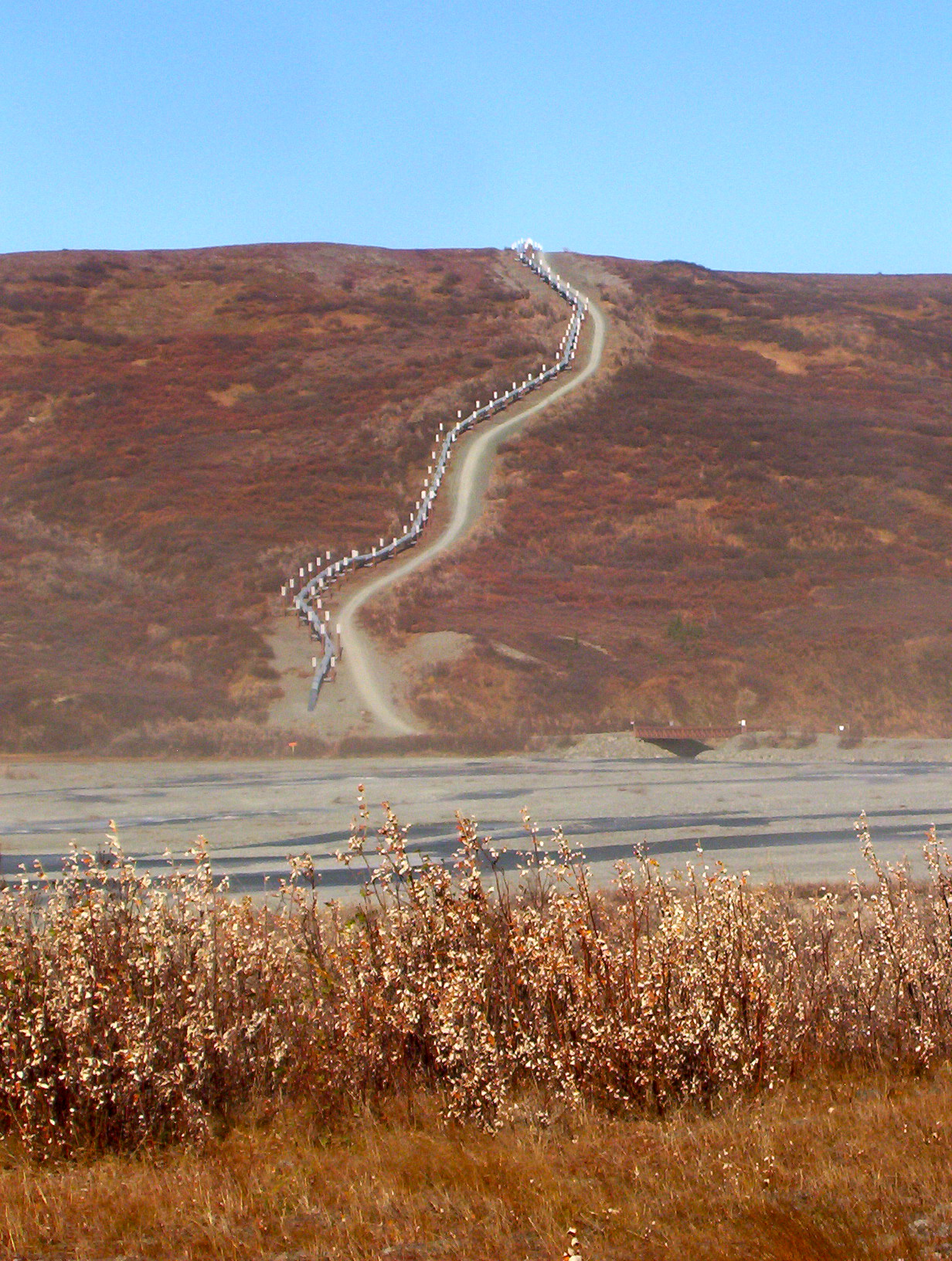 The Trans-Alaska Pipeline crossing a ridge, Delta River is in the foreground. It was extremely windy when this was taken, the slight haze visible in the lower part of the image is airborne dust from the riverbed